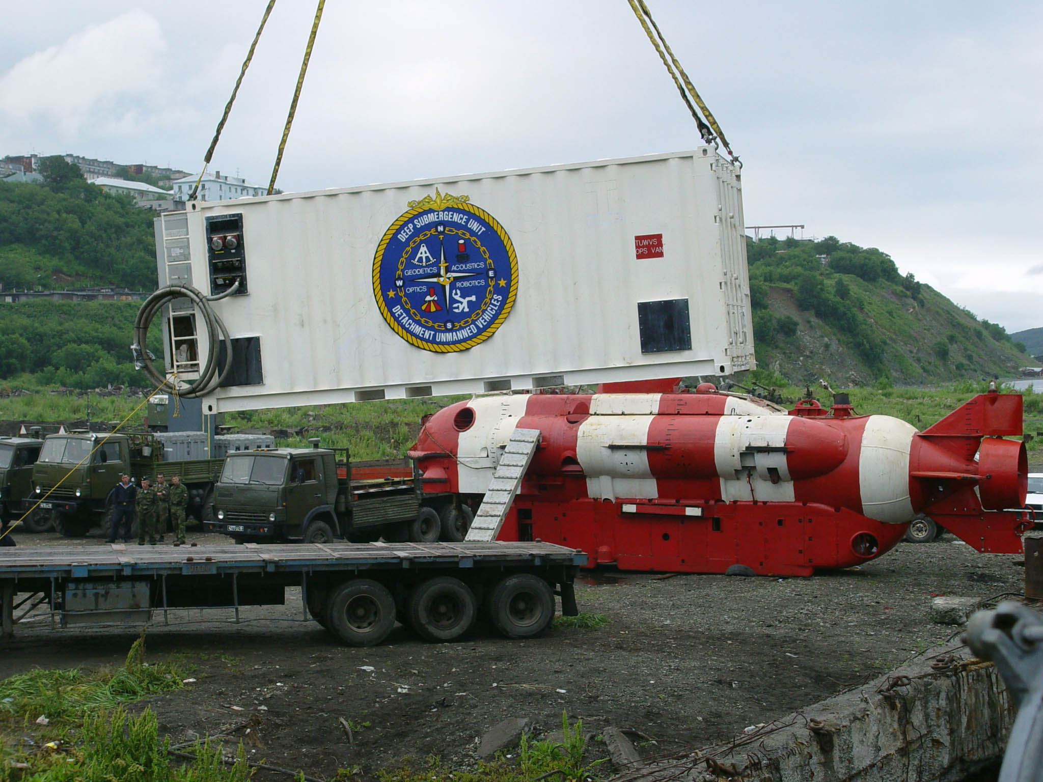 Petropovlosk, Russia (Aug. 7, 2005) The remote operated vehicle control center of U.S. Navy's Deep Submergence Unit is loaded onto a Russian ship in Petropovlosk, Russia as part of the rescue mission of the Russian mini-submarine AS-28 Priz. The Navy transported two "Super Scorpio" remotely operated vehicles in an effort to assist the rescue of seven Russian Sailors trapped on the ocean floor in a mini-submarine off the Kamchatka Peninsula.